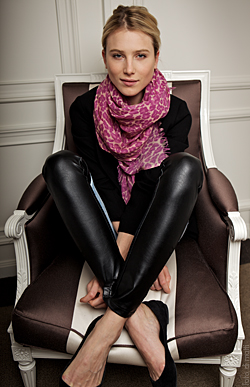 Portrait of Dree Hemingway, photographed by Matti Hillig. The photo was taken in Madrid on Nov 11, 2009. Dree Hemingway is the great-granddaughter of Ernest Hemingway. She is an American model and an actress.